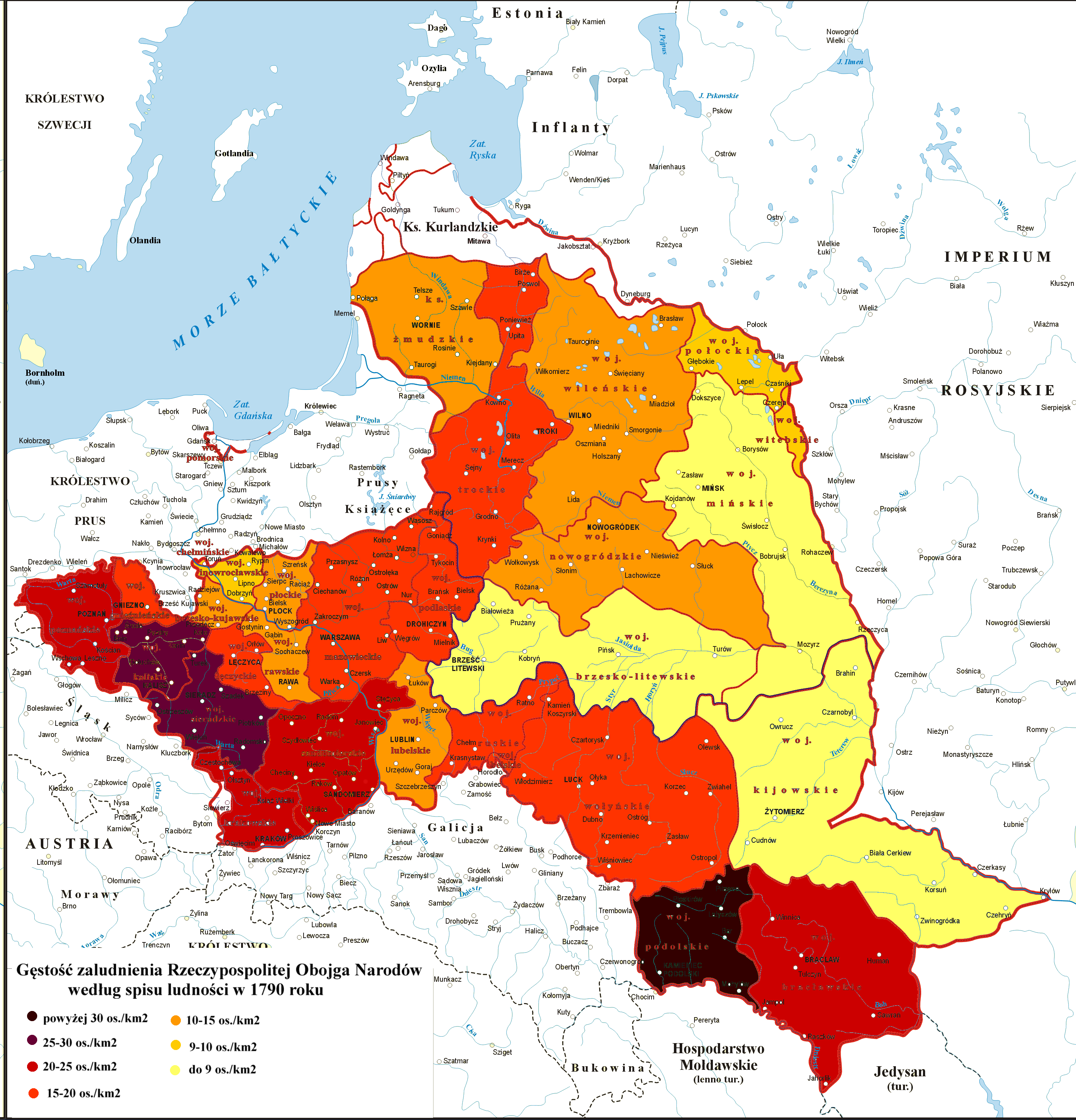 Population density of the Polish-Lithuanian Commonwealth according to the census in 1790